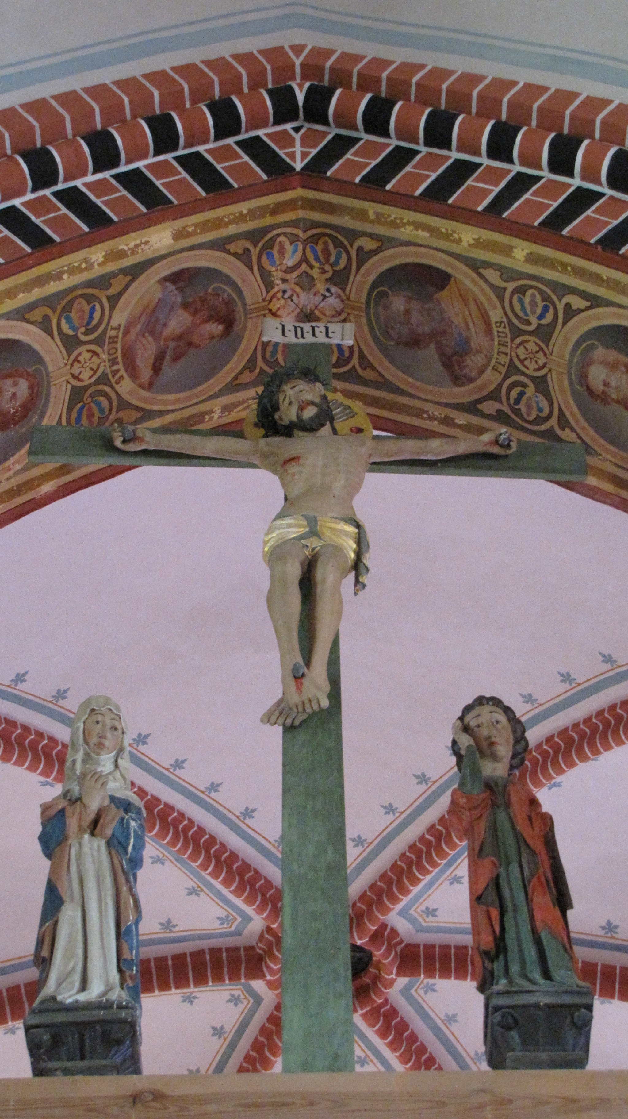 Crucifix group in St. Nikolai, Grevesmühlen